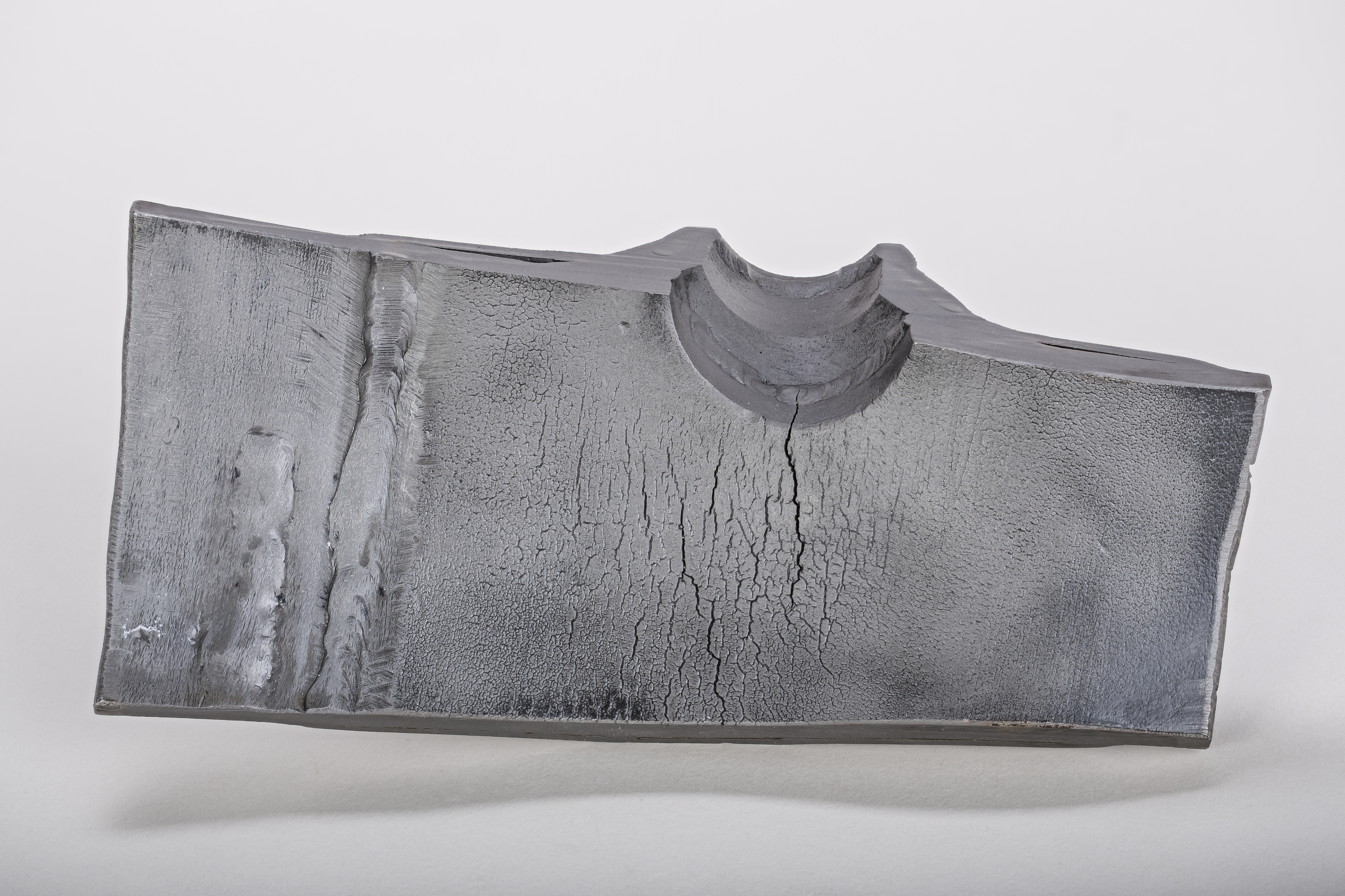 Stress corrosion cracking, caused by tension in a unsuitable welded reinforment collar